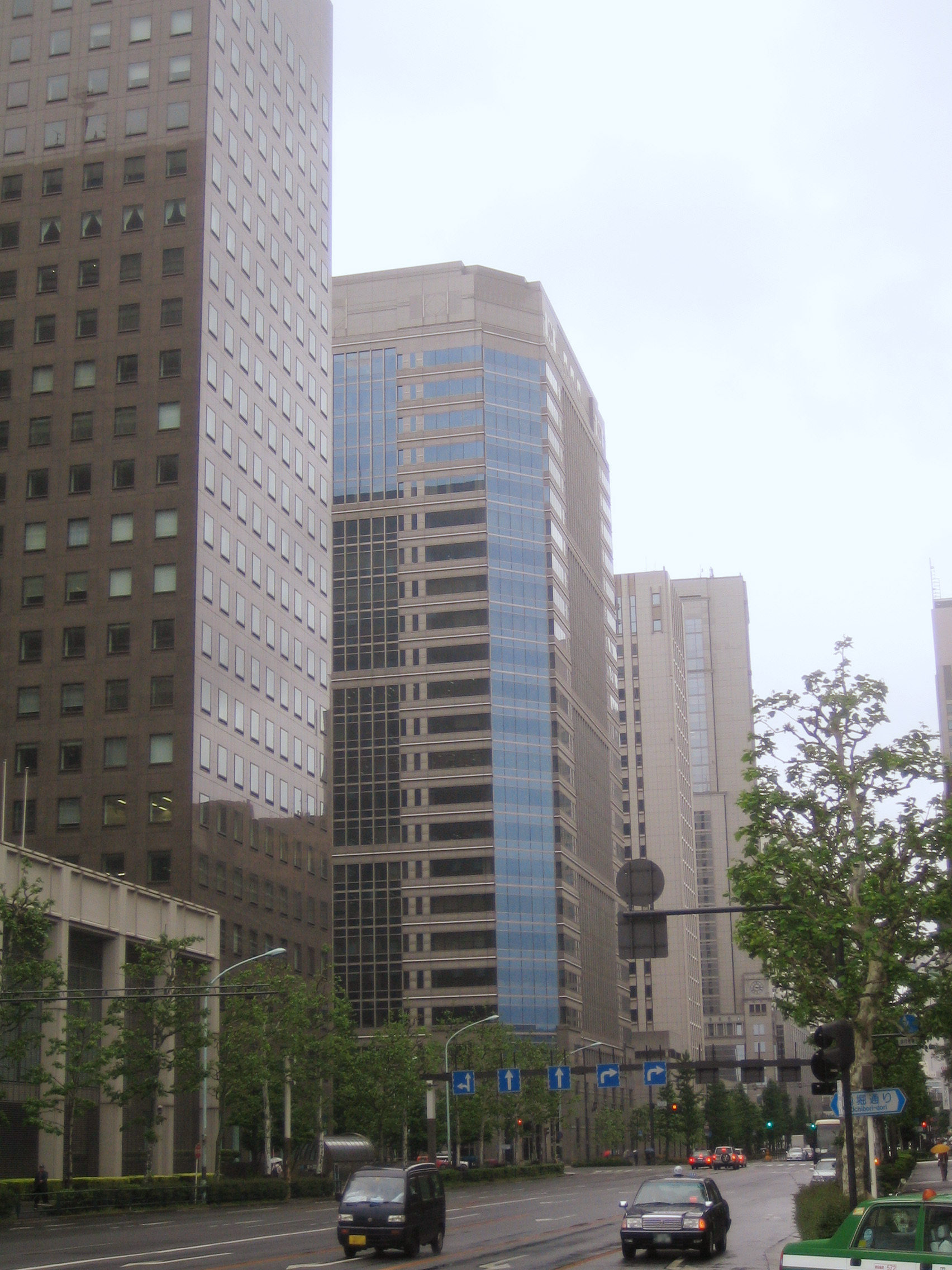 Eitai-dori (永代通り: literally, "perpetual street"), in Chiyoda, Tokyo, Japan